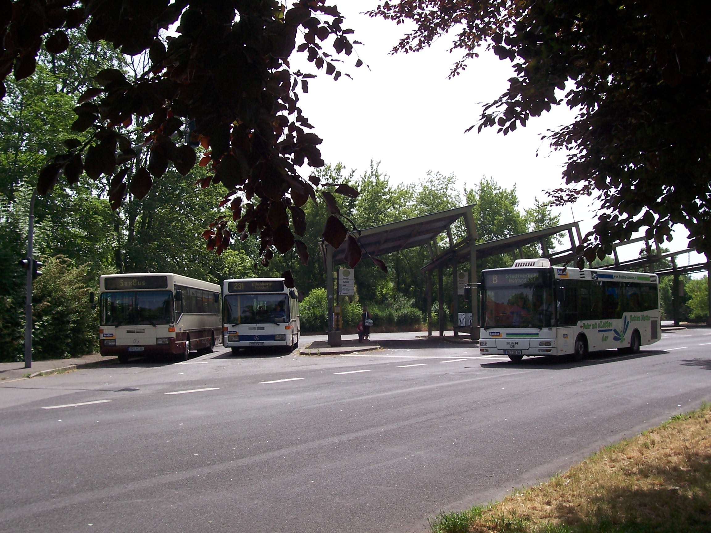 bus terminal at Eilenburg main station